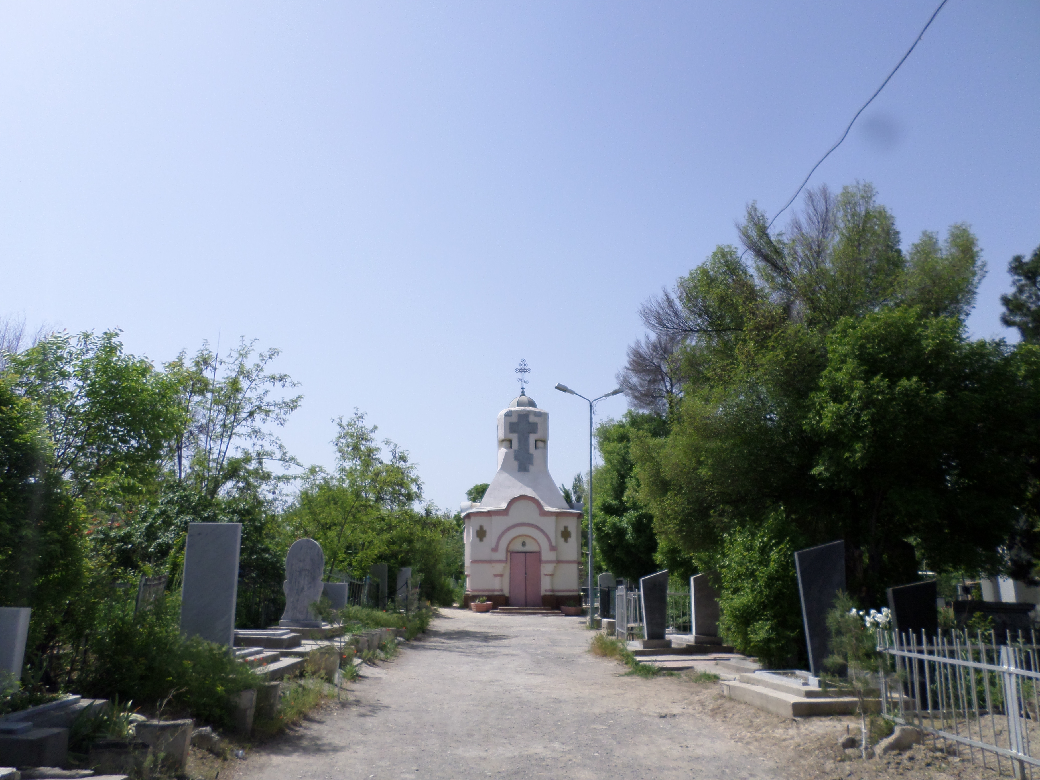 Chapel of St. George in Andijan